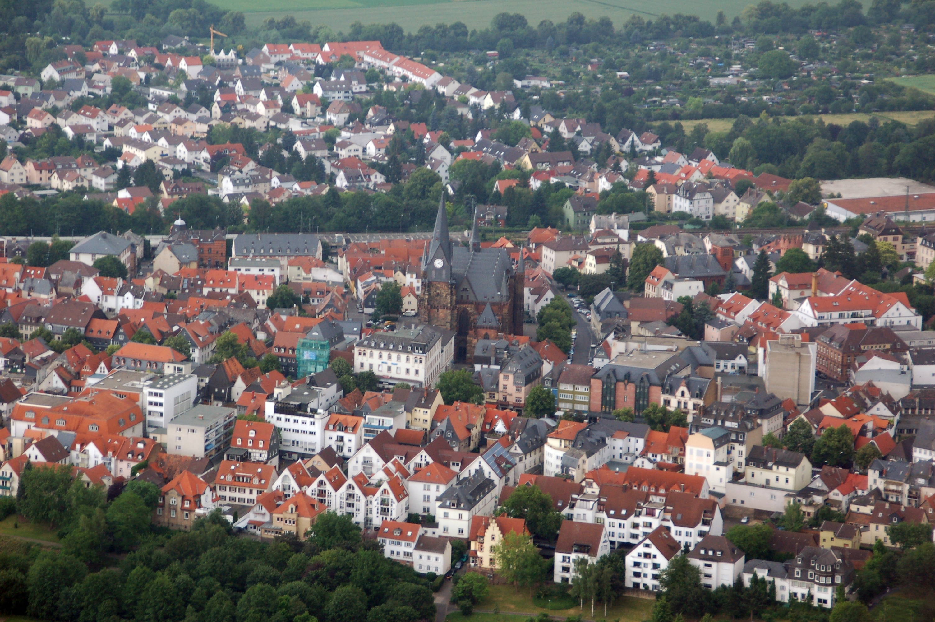 Aerial photograph of Friedberg, Hessen, Germany